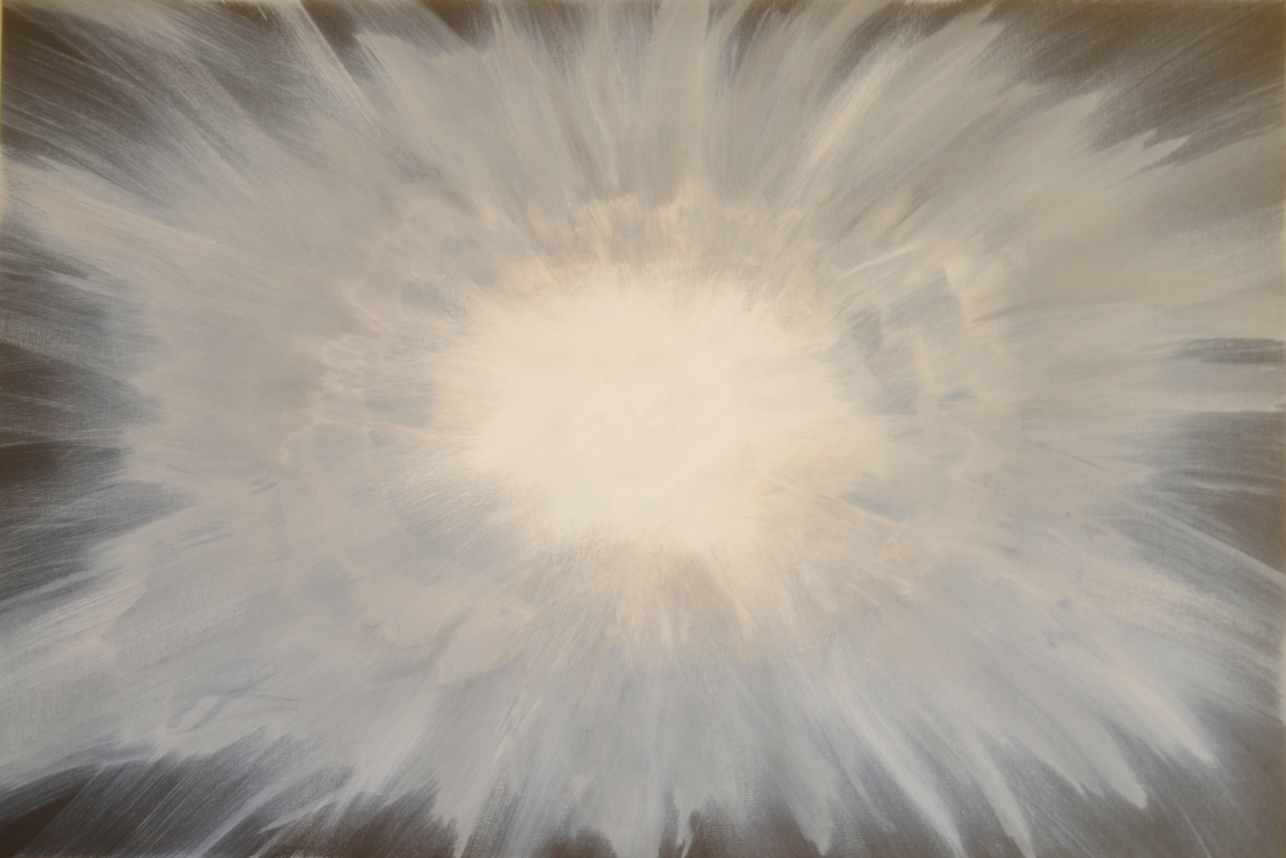 Example of modern abstract art, .br